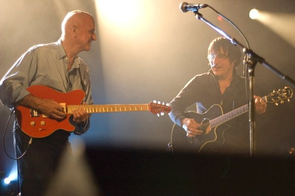 Les guitaristes Dan Ar Braz et Pierre Sangra invités par le groupe Red Cardell.